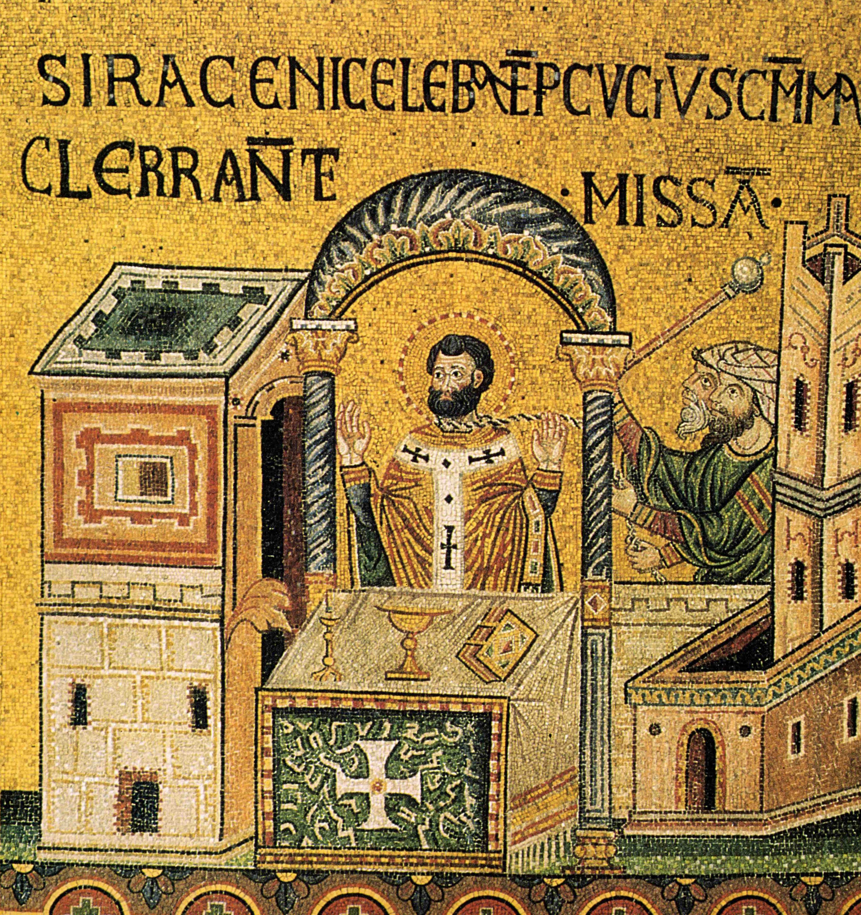 Murder of saint Mark (Mosaic in Basilica di San Marco)